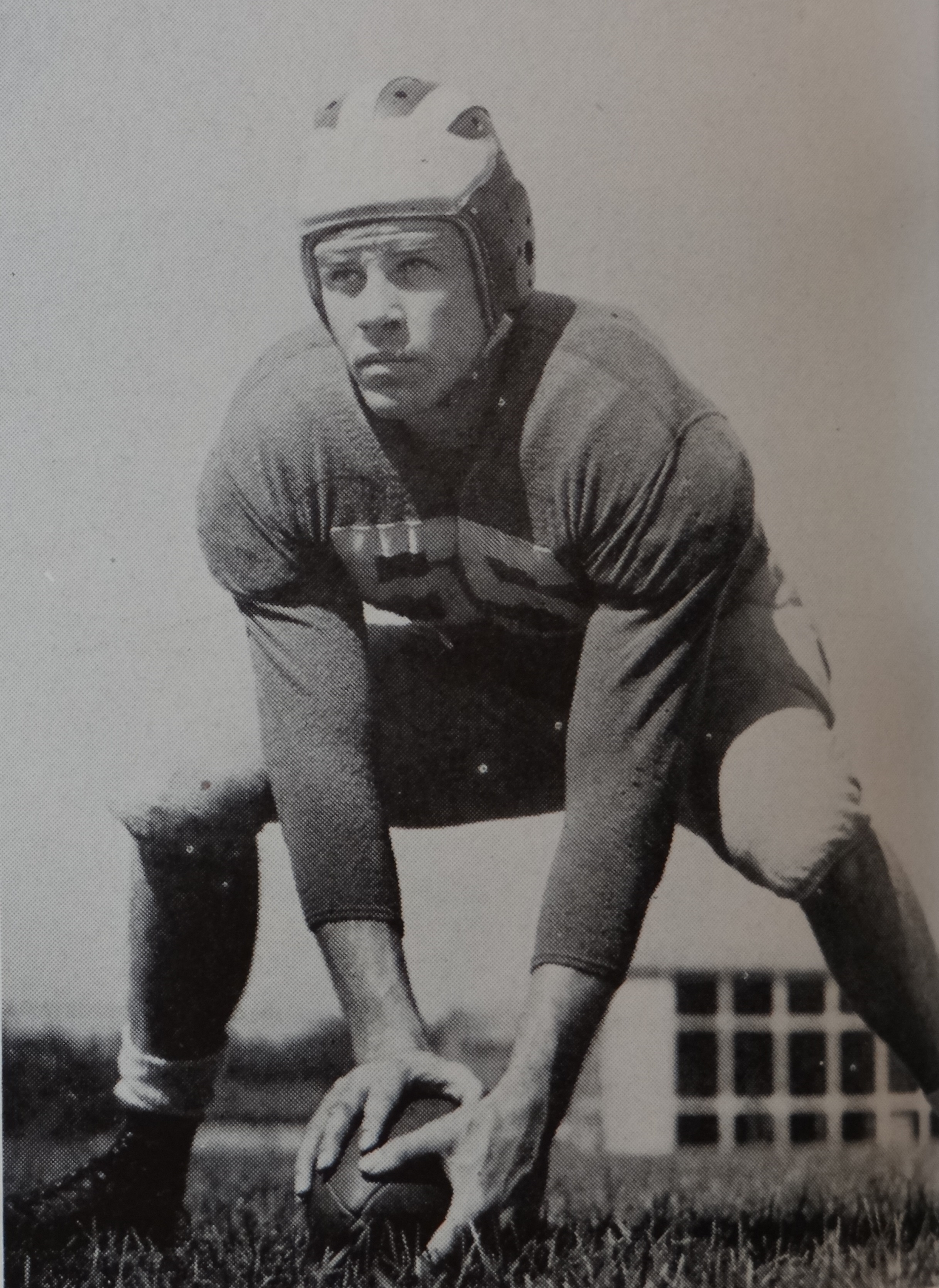 Photograph of University of Michigan football center J. T. White Photograph of University of Michigan football center J. T. White